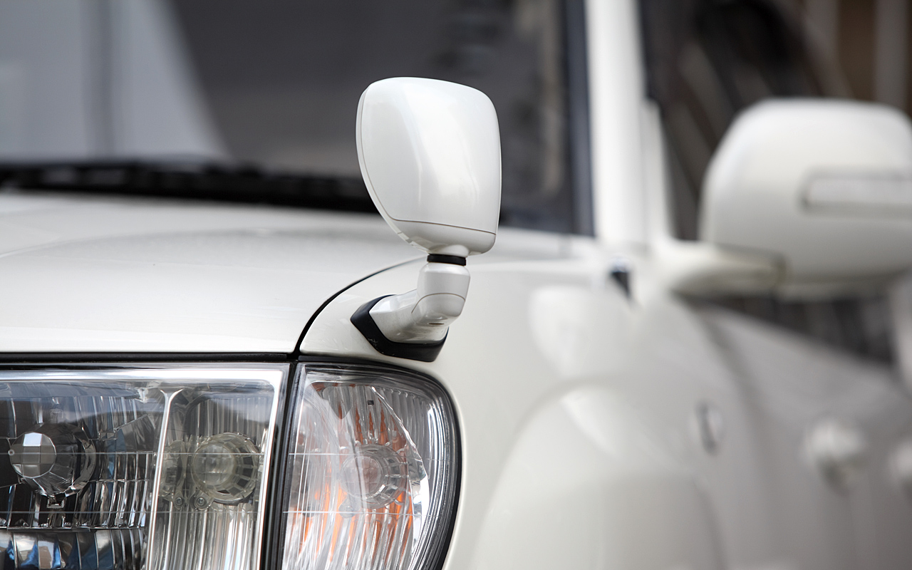 Supplemental mirror ( Toyota Land Cruiser 100 )